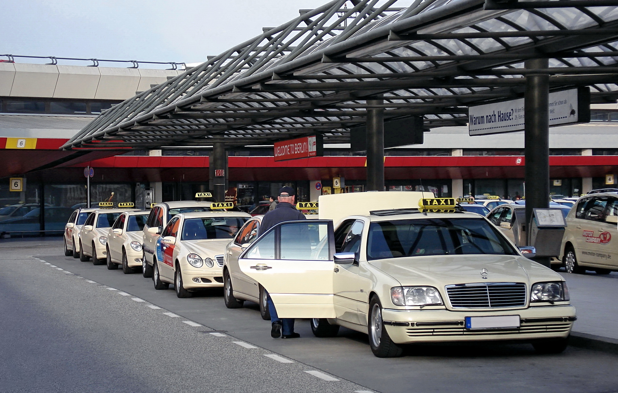 Mercedes S-Class (W140) Taxi at Airport Berlin-Tegel (TXL) Original Reworked version of Image:Taxis_at_EDDT.jpg by -jha- Original-Description: (Uploaded by User:MB-one)